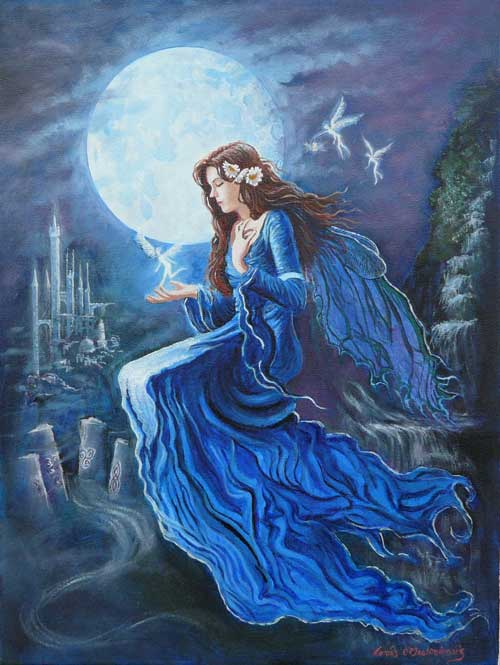 Aine fairy queen of Munster